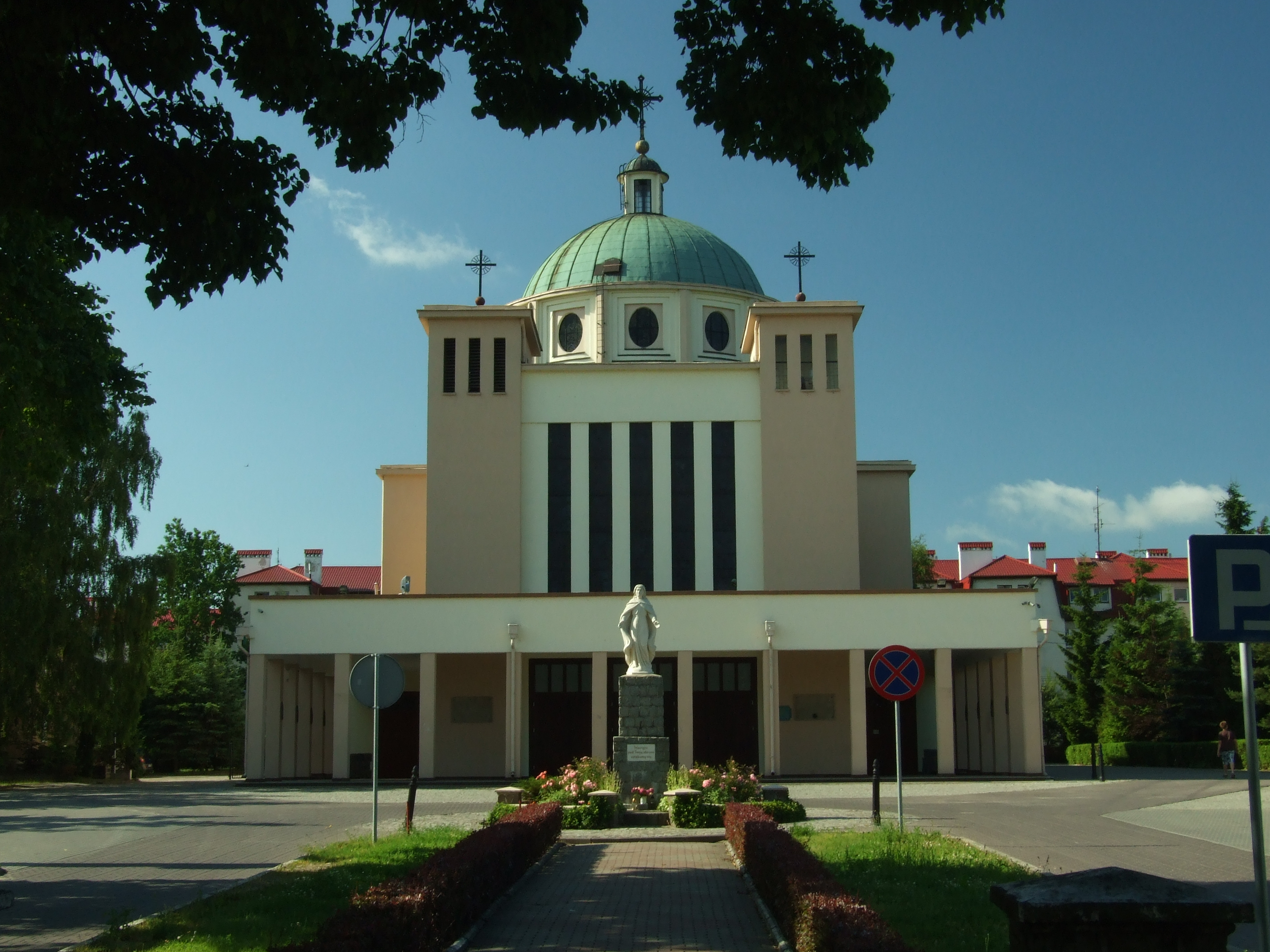 St. Wojciech church in Starogard Gdański, Pomeranian voivodeship, Poland